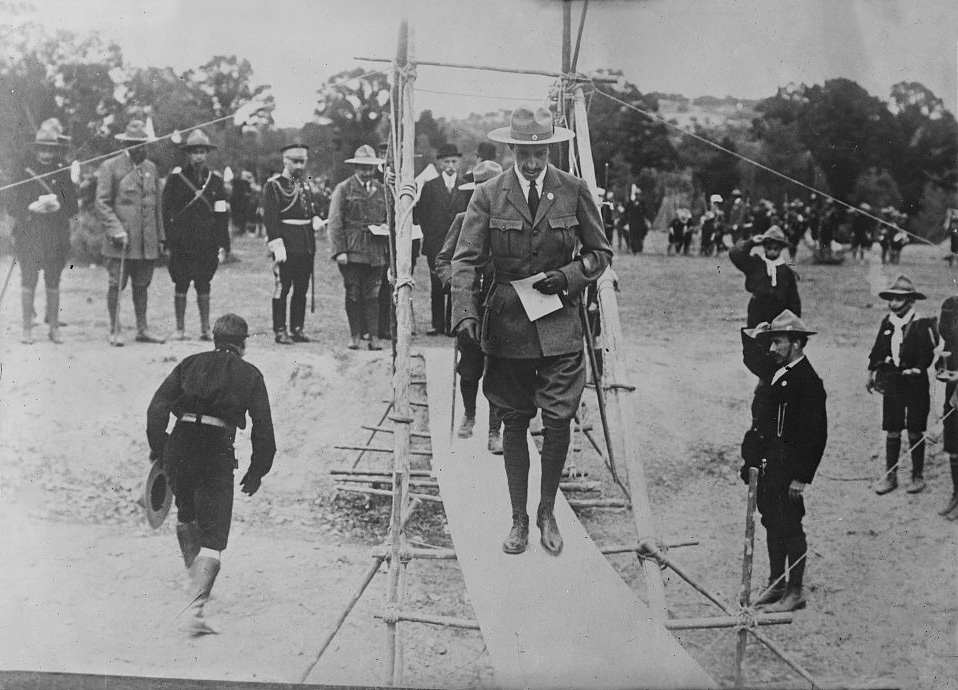 Bain News Service,, publisher. King of Spain & Boy Scouts [between ca. 1915 and ca. 1920] 1 negative : glass ; 5 x 7 in. or smaller. Notes: Title from data provided by the Bain News Service on the negative. Forms part of: George Grantham Bain Collection (Library of Congress). Format: Glass negatives. Repository: Library of Congress, Prints and Photographs Division, Washington, D.C. 20540 USA, General information about the Bain Collection is available at Higher resolution image is available (Persistent URL): Call Number: LC-B2- 4322-1